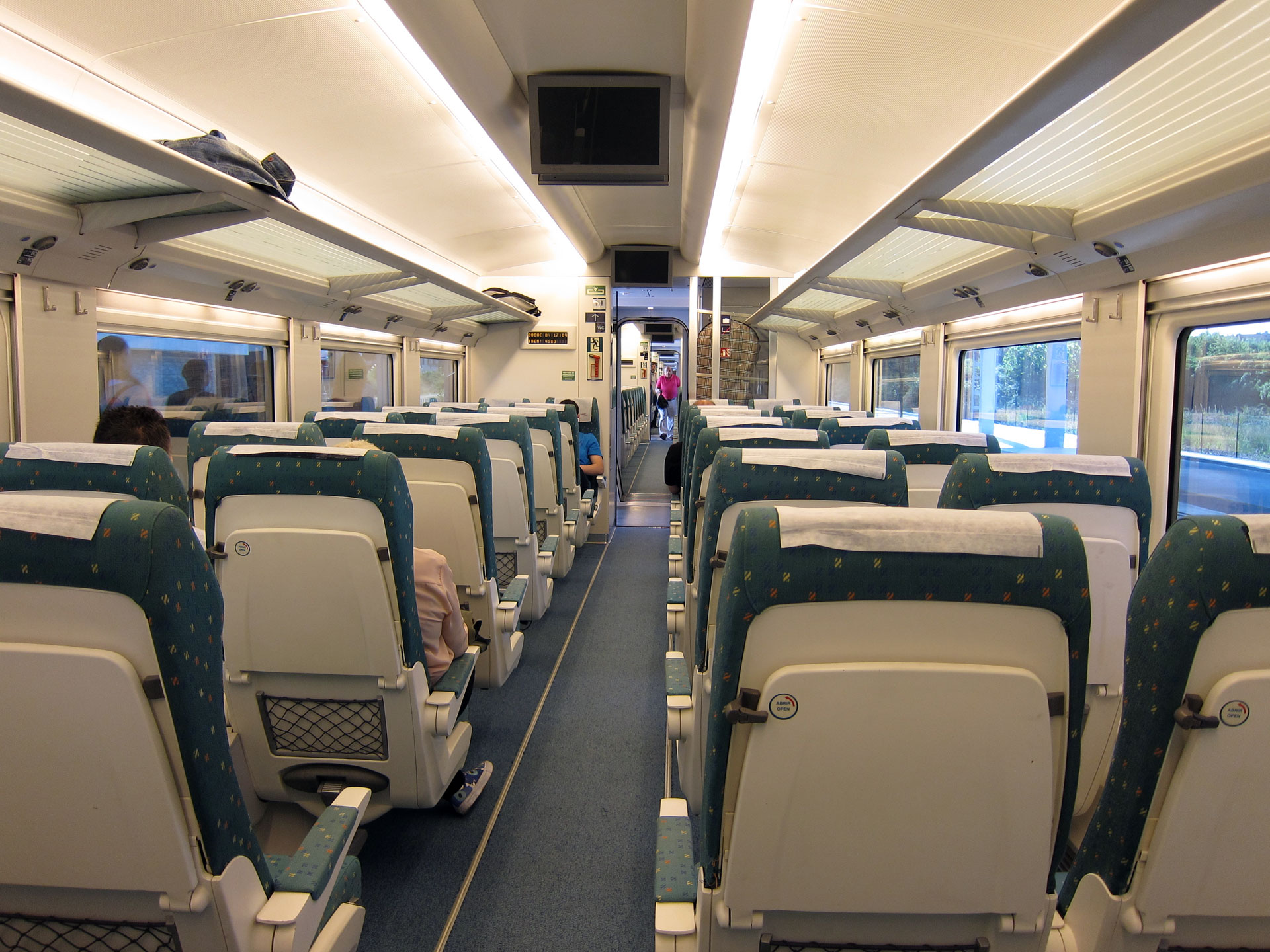 Renfe Class 130 Economy class interior.